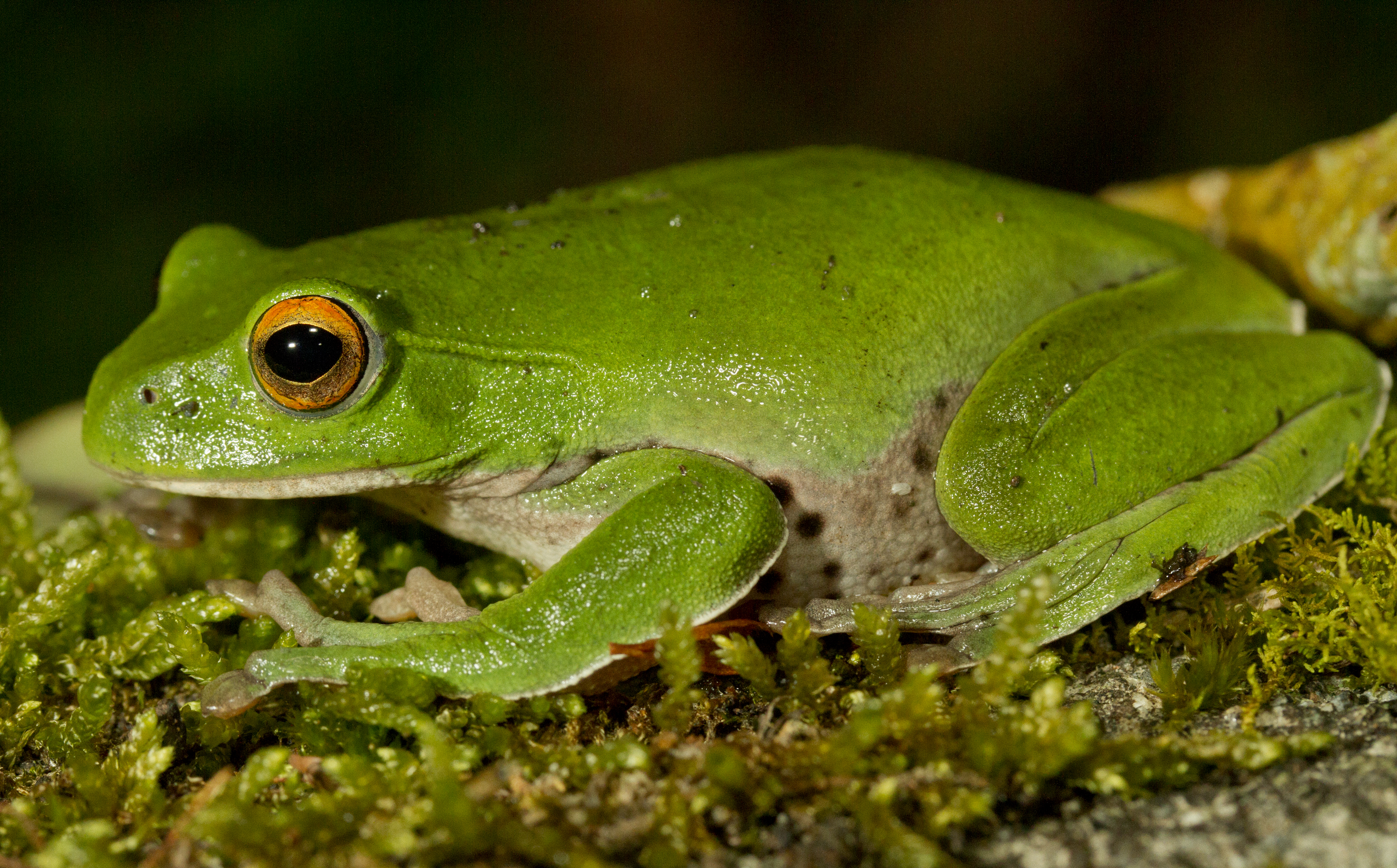 Rhacophorus moltrechti from Taiwan